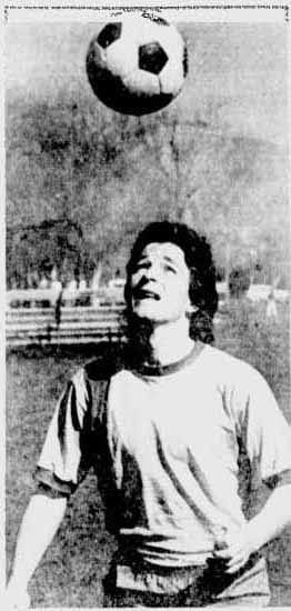 Vinny McCarthy photo taken when playing for the Utah Golden Spikers 1976